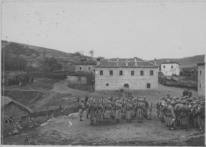 French troops in Rakovo, today Kratero, Florina prefecture, in 1918